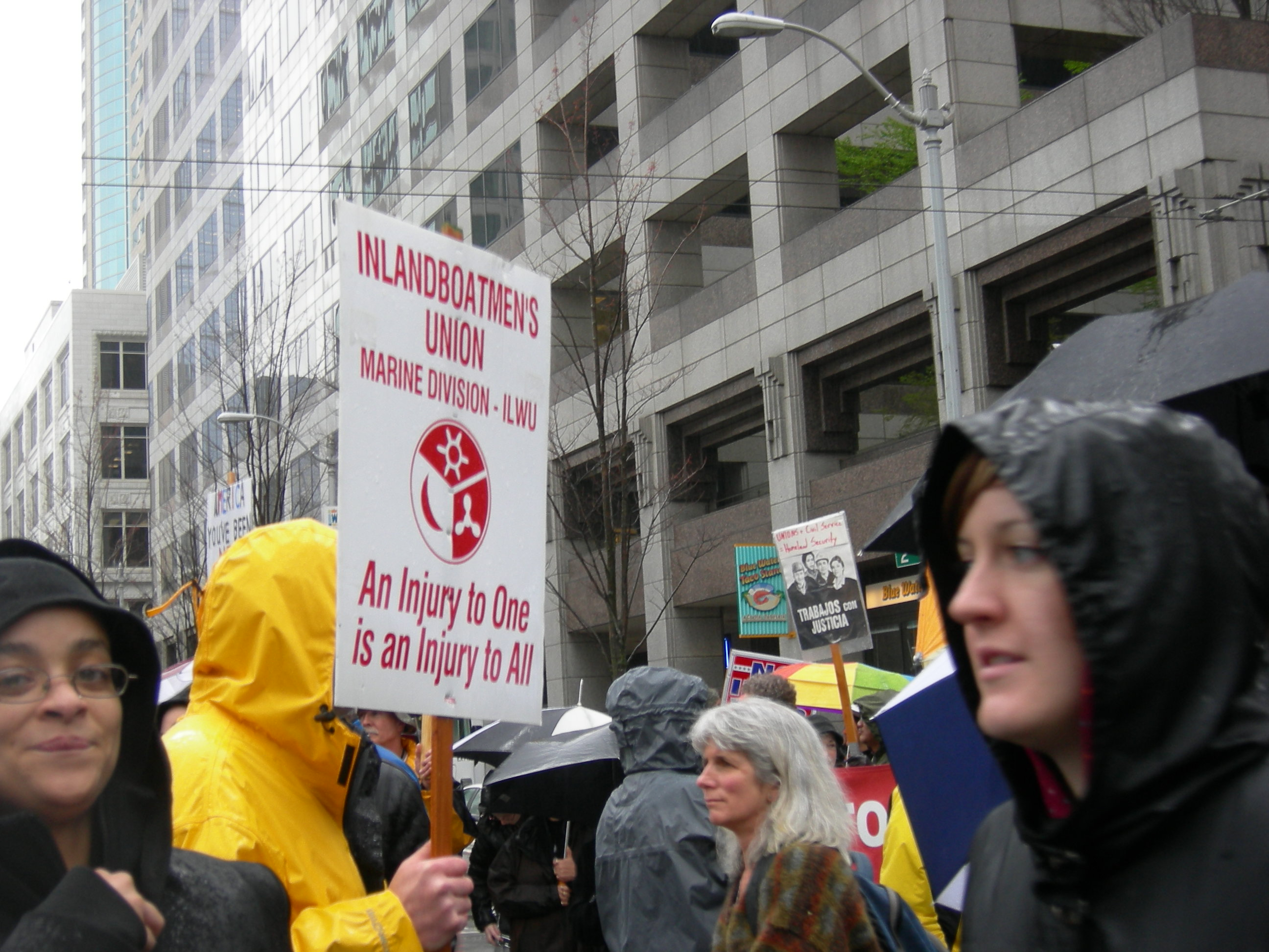 Anti-war demonstration, Seattle, Washington, 19 March 2007. Inlandboatmen's Union sign.